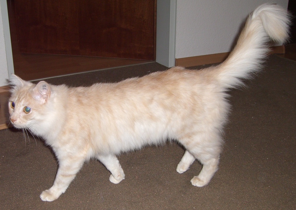 male Turkish Angora in red-silver-tabby